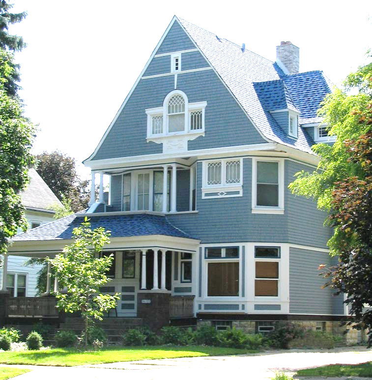 The Blue Island, Illinois residence of Harry A and Stella (Biroth) Massey, by August Fiedler, architect c.1890